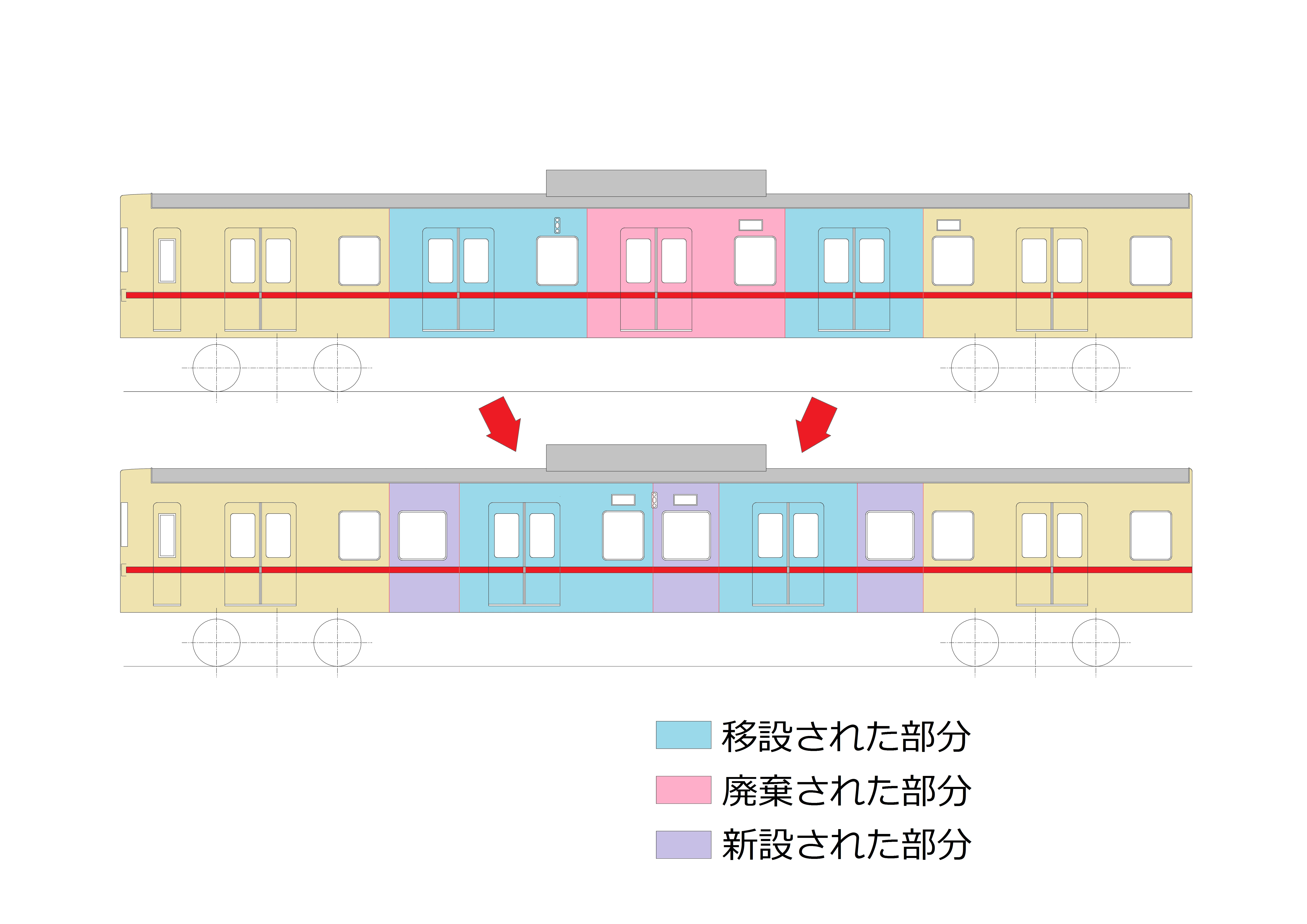 Drawings to show the Keio 6000 modification from 5 doors to 4 doors